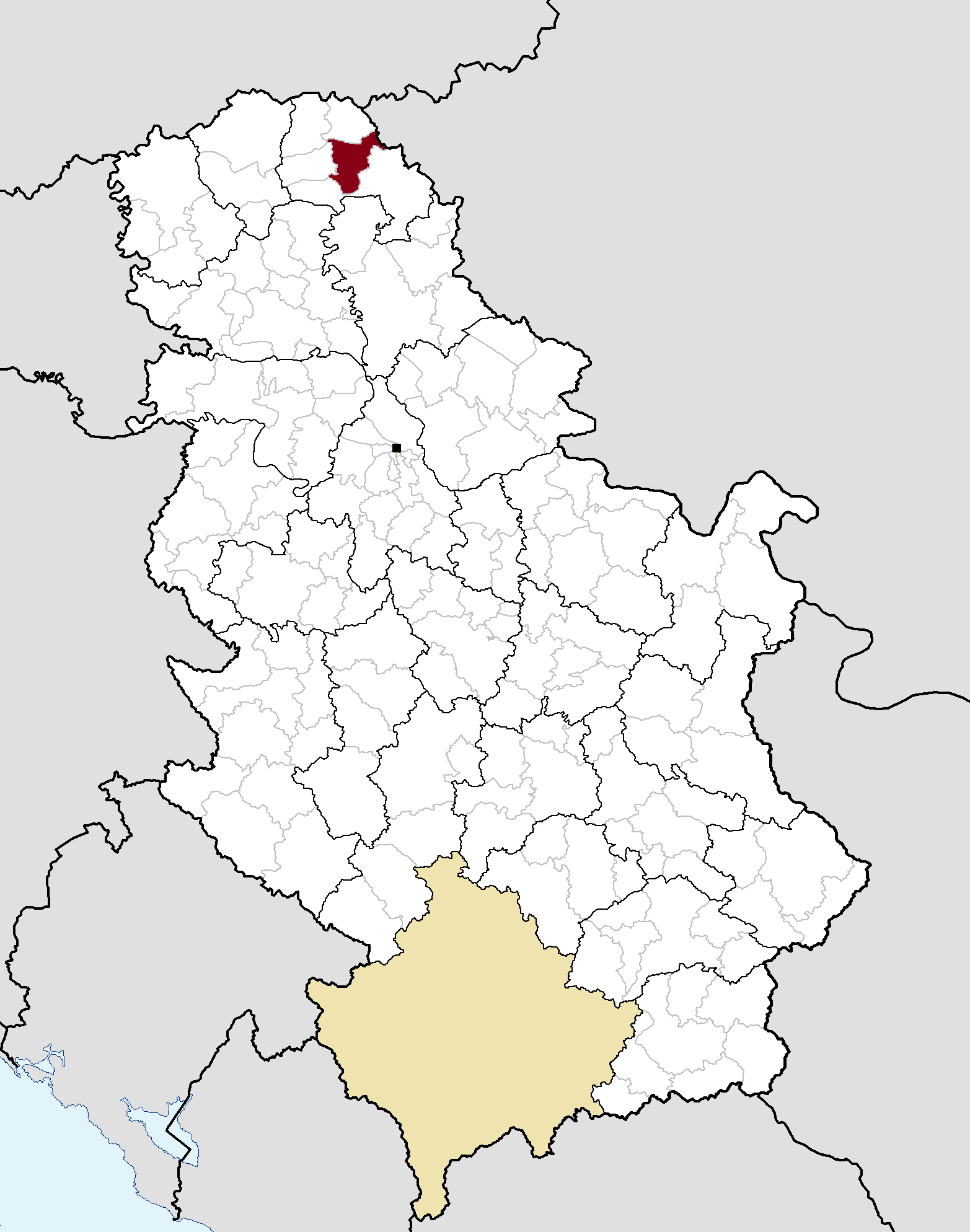 Municipal location in Serbia